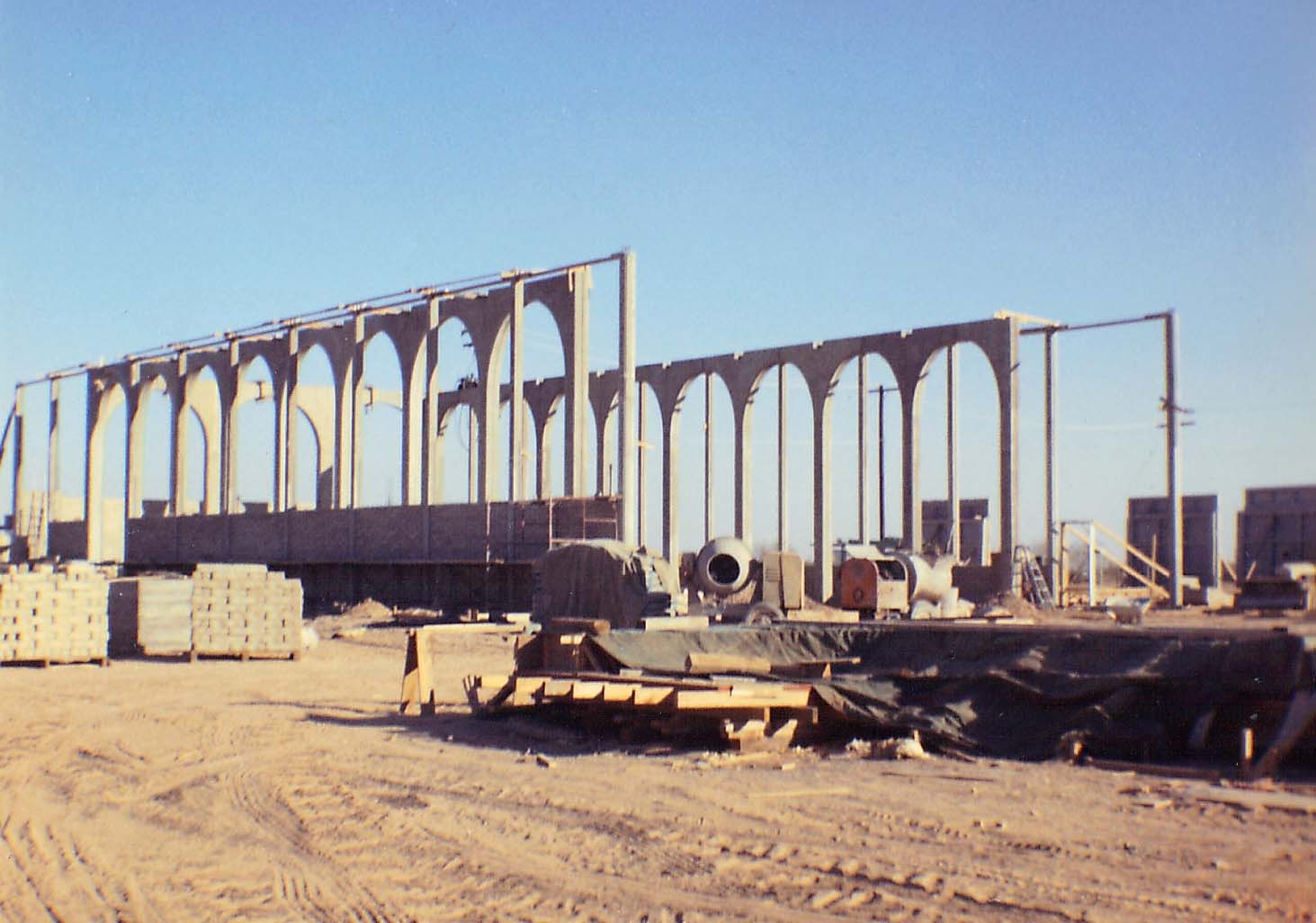 Sanctuary of Saint Barnabas on the Desert under construction